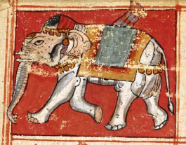 elephant of 14 auspicious dreams in Jainism